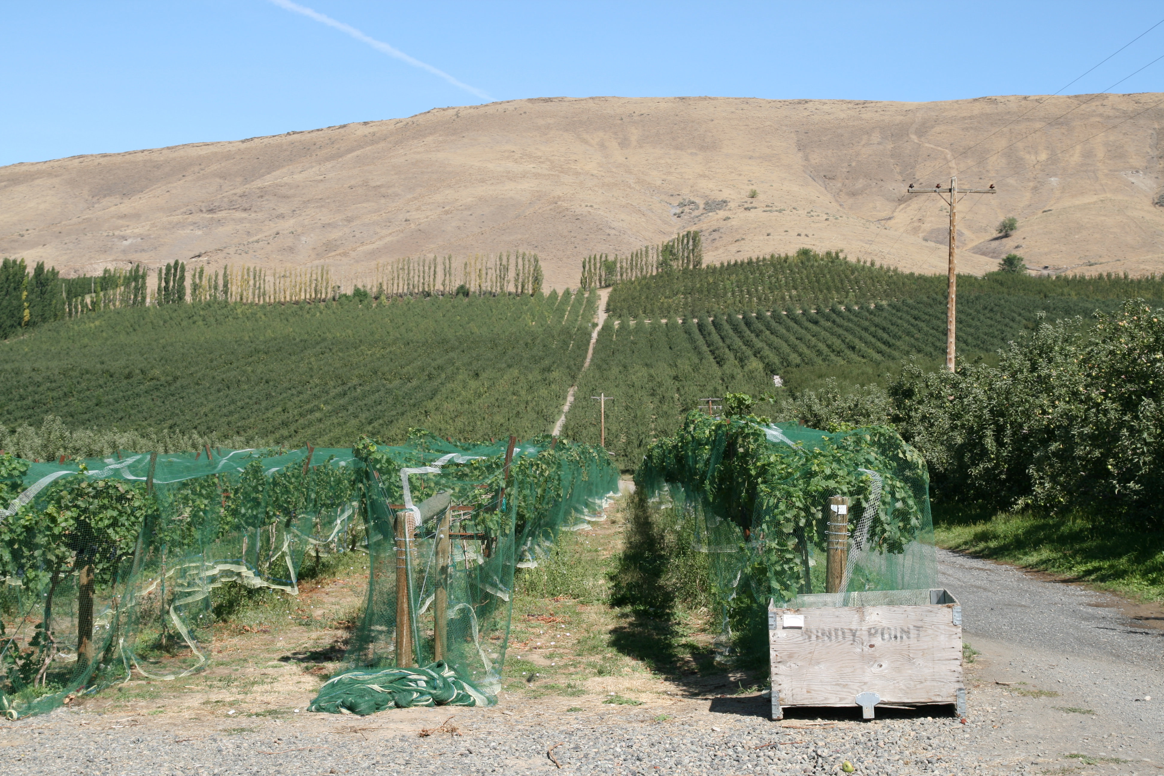 The Windy Point Vineyards in Wapato, Yakima River Valley wine region, Washington State. The netting on the vines is to protect from birds and the elements